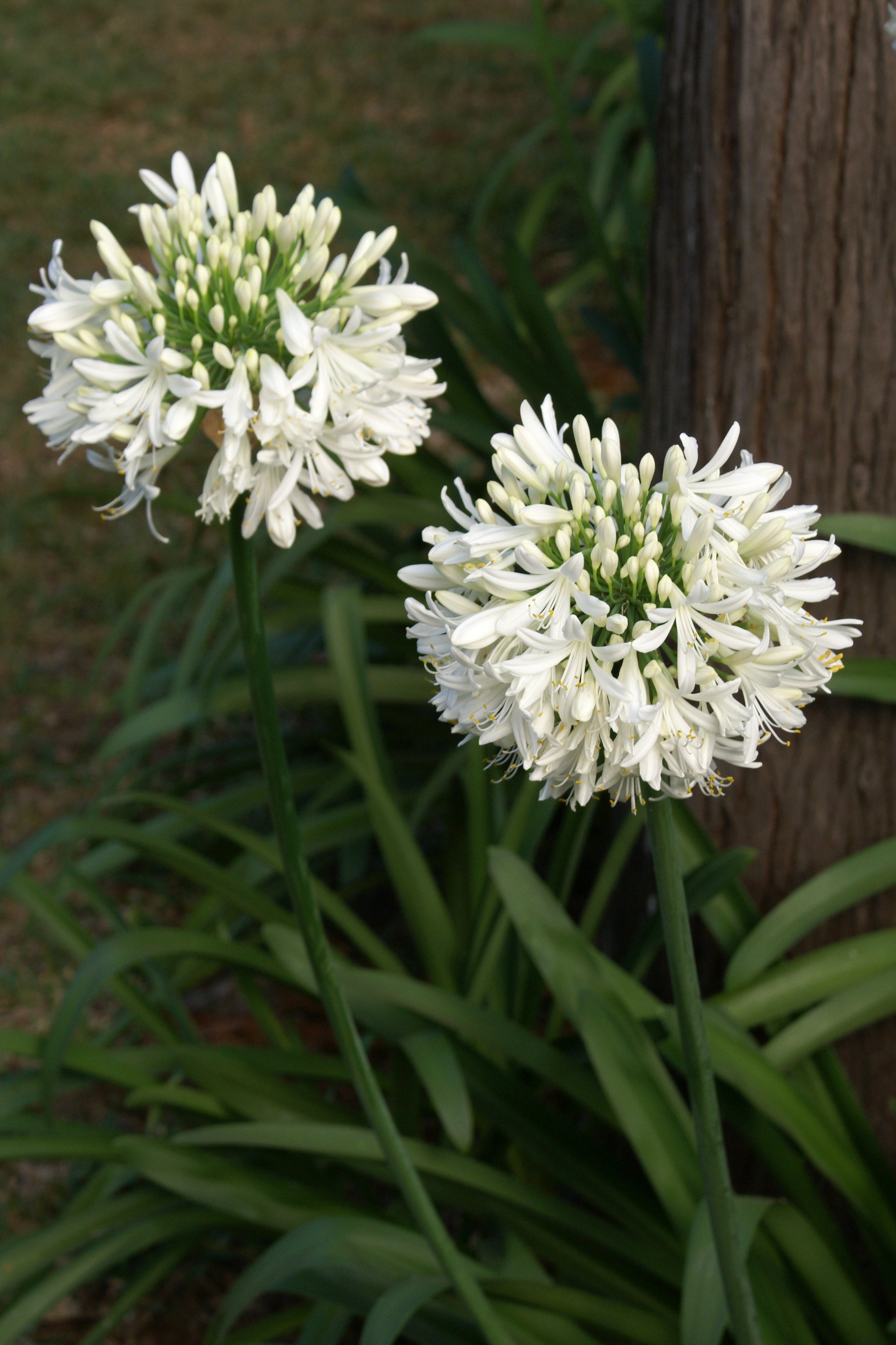 Flowers of white variety of Agapanthus africanus, on Réunion island